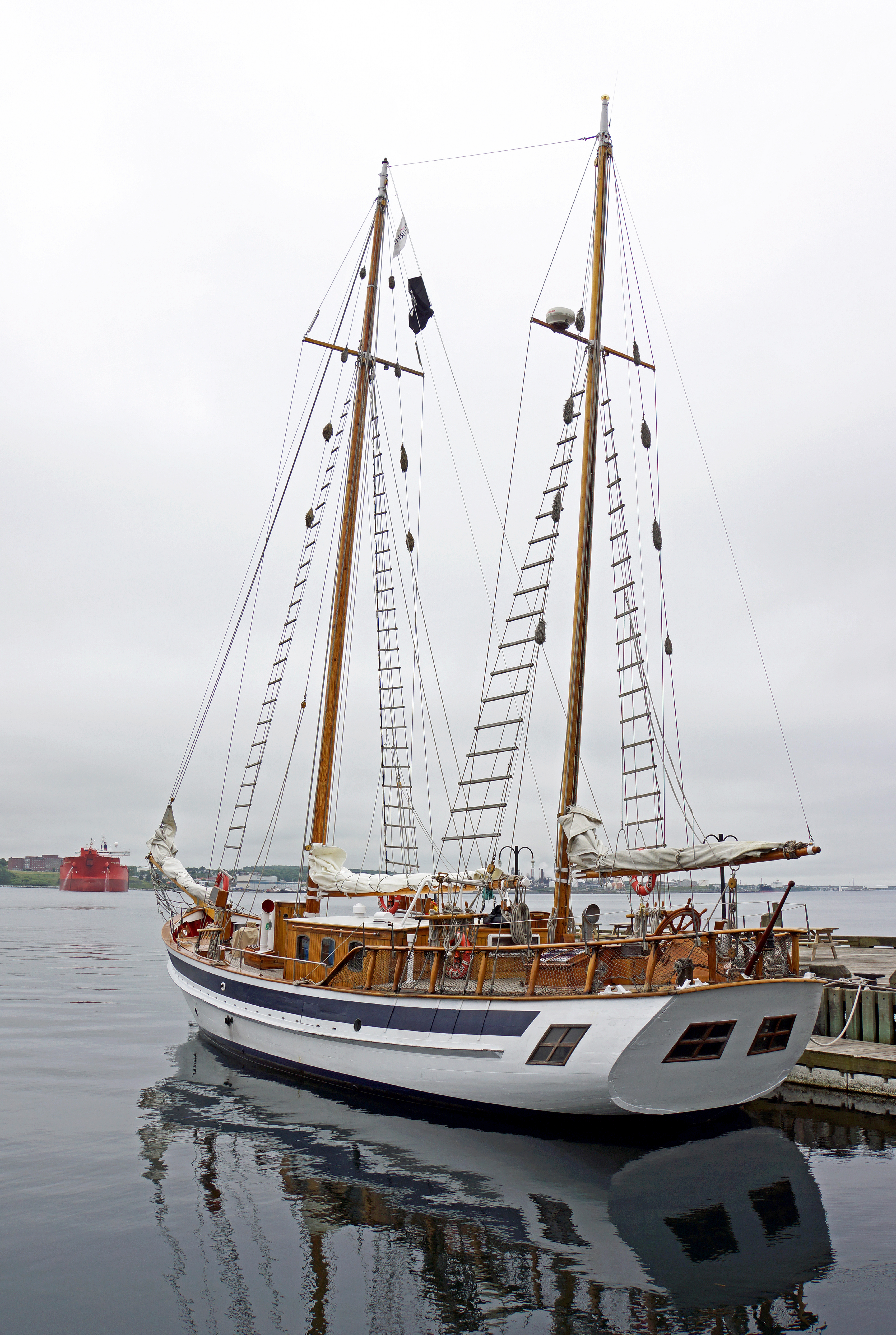 PLEASE, no multi invitations, glitters or self promotion in your comments, THEY WILL BE DELETED. My photos are FREE for anyone to use, just give me credit and it would be nice if you let me know, thanks - NONE OF MY PICTURES ARE HDR. The Mar is a 75 ft. wooden ketch built in Denmark in 1975 by world renowned American aviator, author, filmmaker, sailor, fisherman and conservationist, Ernest K. Gann. She was the subject of a documentary film produced by her next owner, Charles Tobias of the Pusser’s Rum Company, and has twice circumnavigated the world. It now offers daily sailing tours of Halifax Harbour. Passengers can choose from a number of tour types including afternoon pirate cruise, cocktail cruise, party cruise, and moonlight cruise. The vessel is also available for private charters.